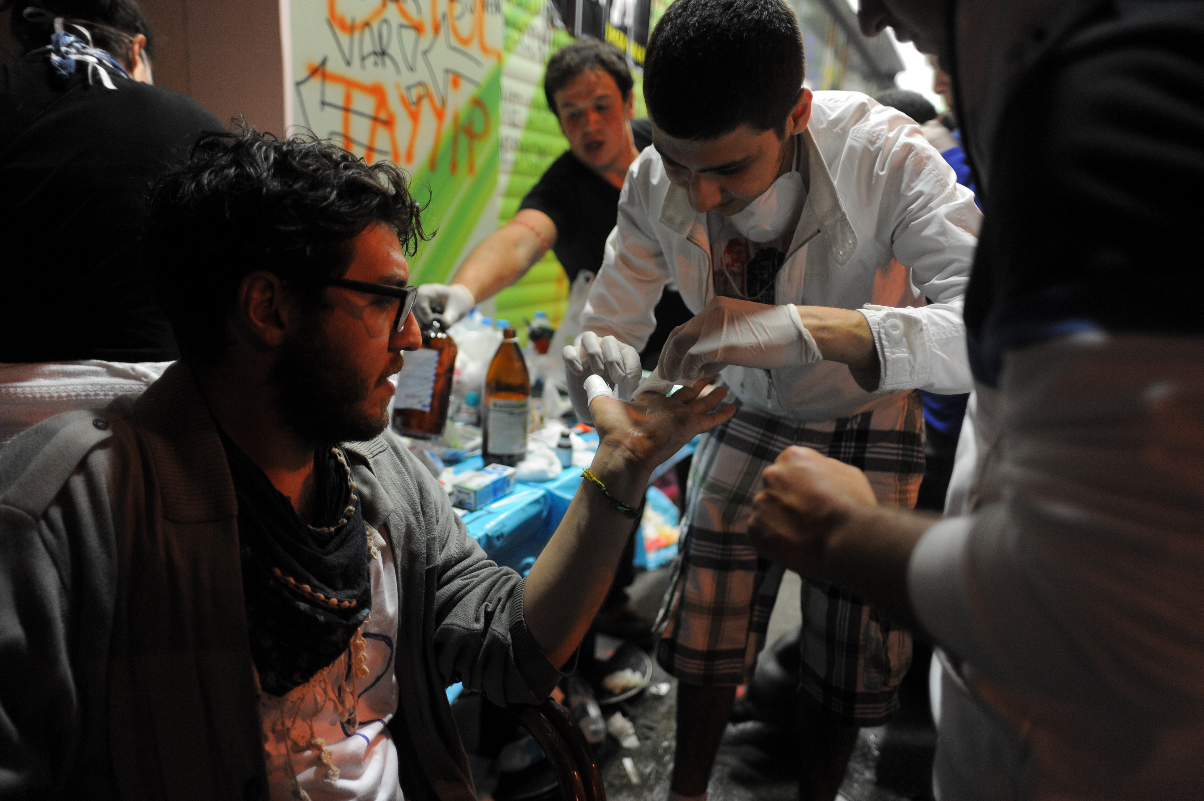 Taksim square volunteer medical help. Events of June 3, 2013.